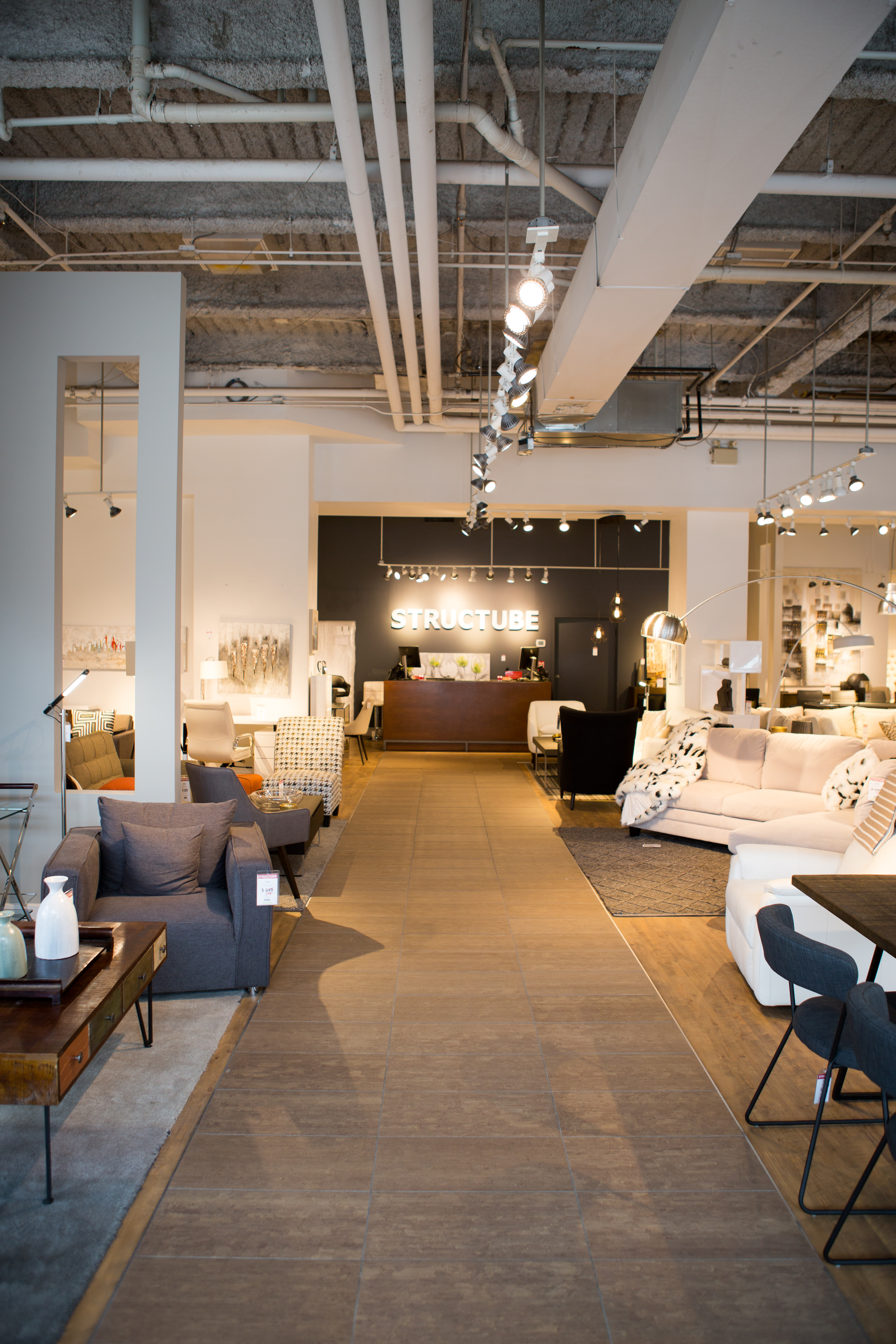 Structube store in Yorkville, Toronto, Canada.